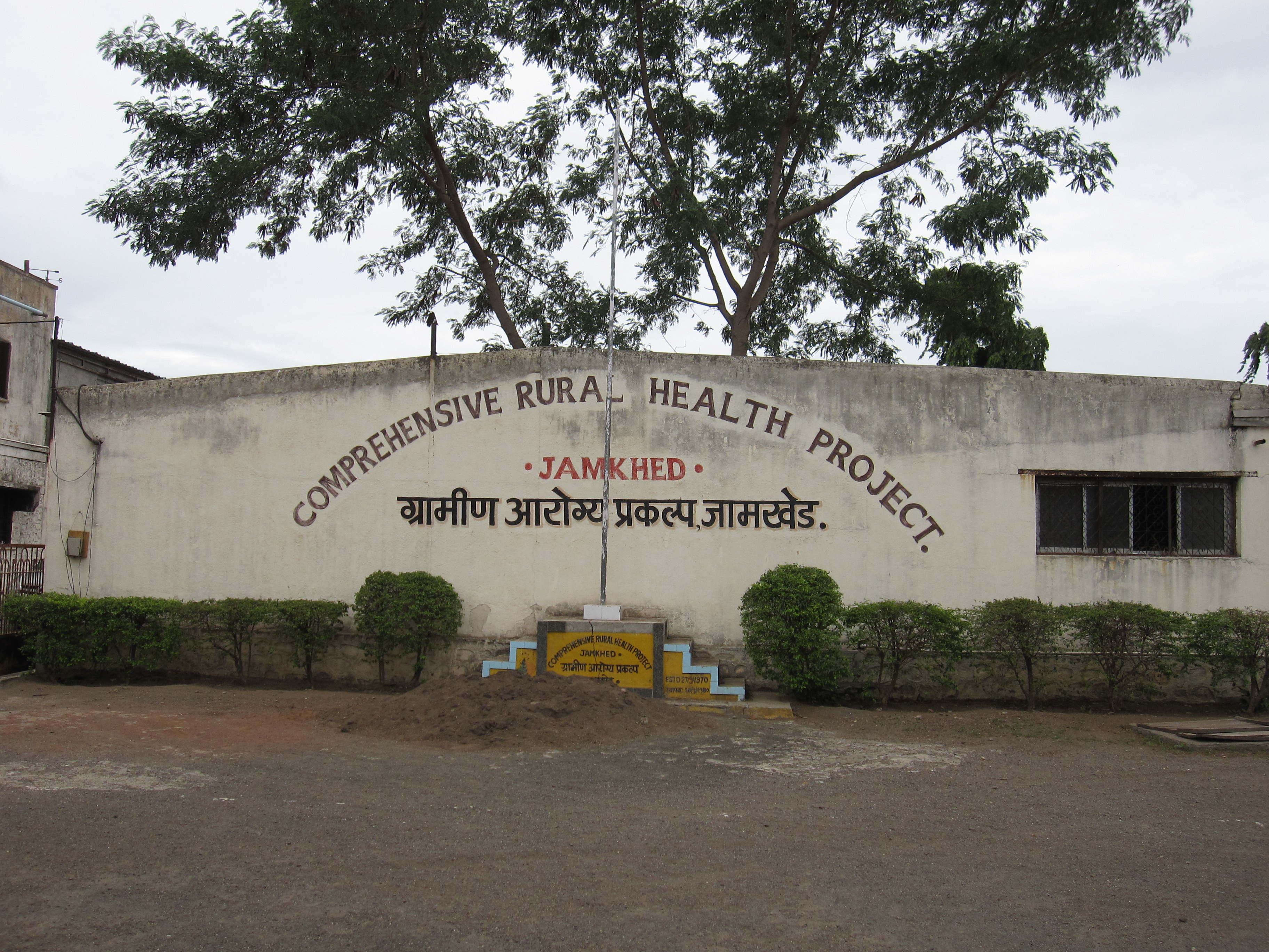 This sign marks one of the buildings on campus that used to be the site of Old Hospital.